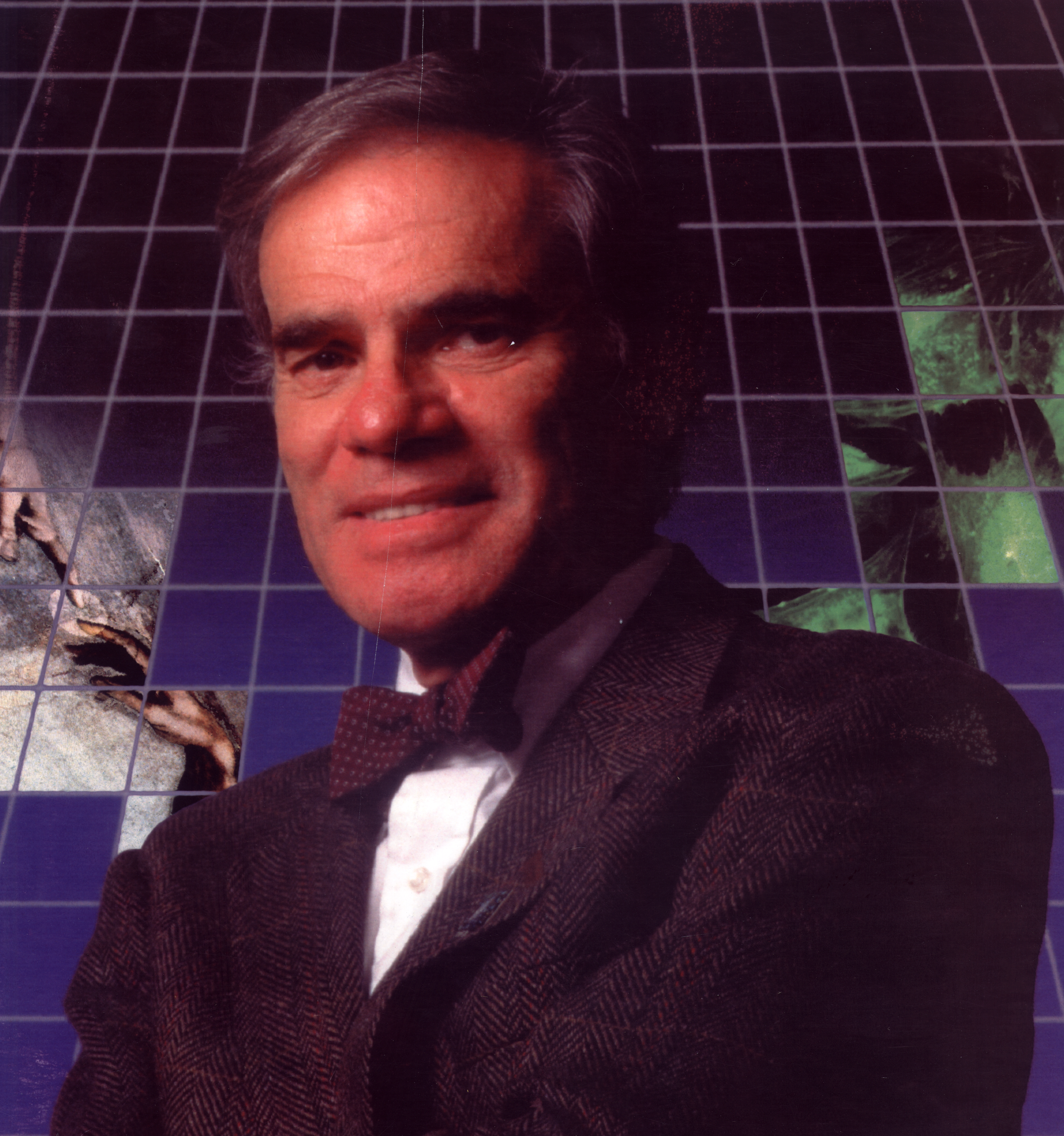 Martin Rodbell at the cover of Environmental Health Perspectives